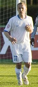 Sergei Korovushkin in action for FC Baltika